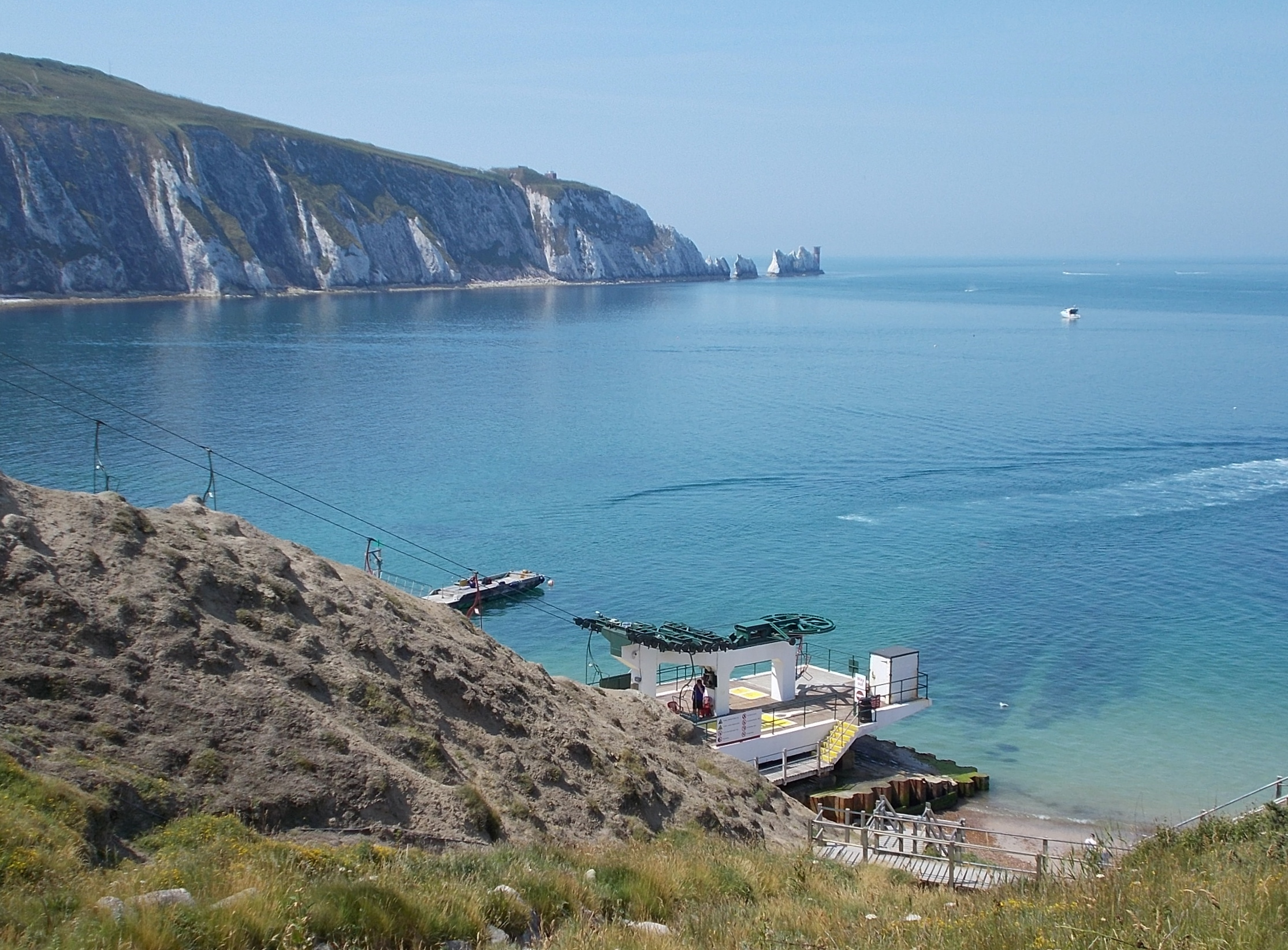 View of The Needlesfrom Alum Bay cliffs, Isle of Wight, UK